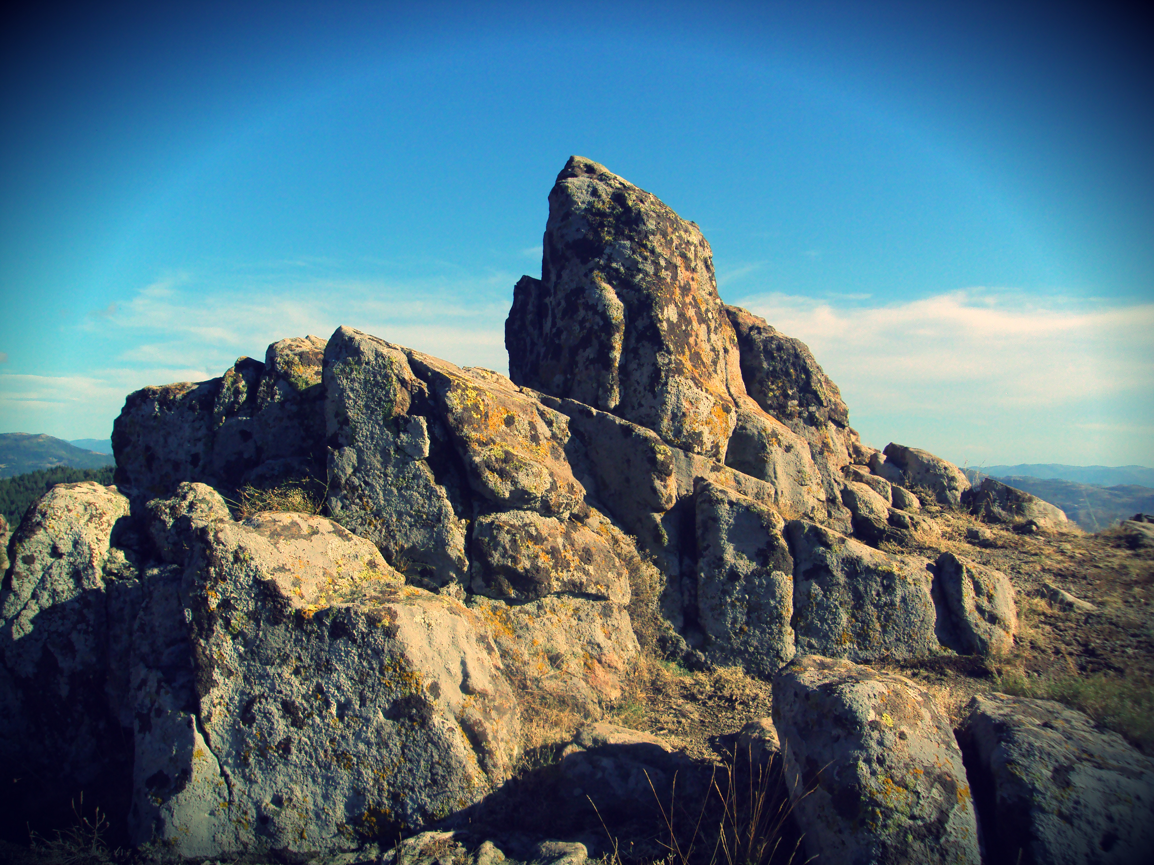 Archaeo-astronomical Site Kokino